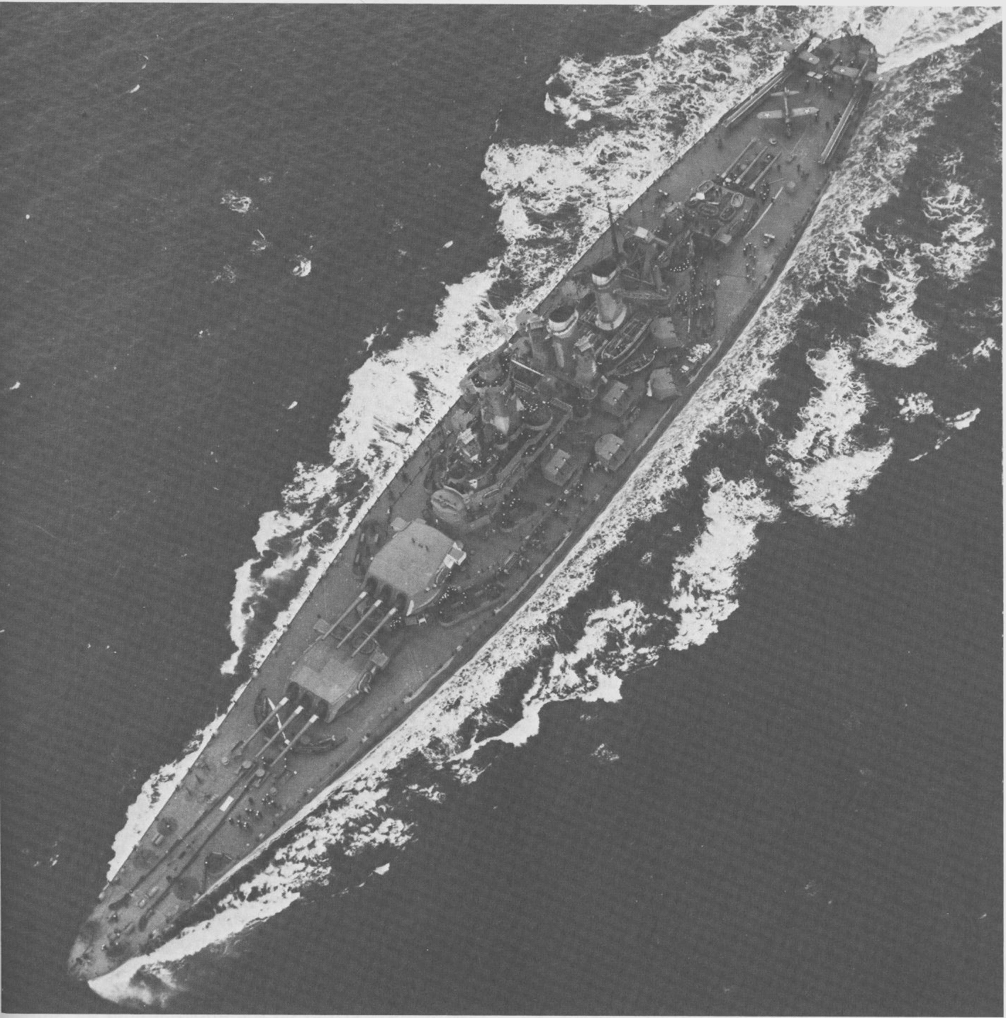 USS North Carolina. "17 April 1942 overhead basically as completed. Changes from original completion specs include; 20mm gun additions on the main and 01 deck levels, and the replacement of the bridge 12 foot range finder with a fifth quadruple 1.1"/75 gun mount atop the pilot house. At this time she still retained her original 0.50 caliber machine guns. As more 20mm mounts were fitted, the 0.50 guns were eliminated." Quoted from NavSource